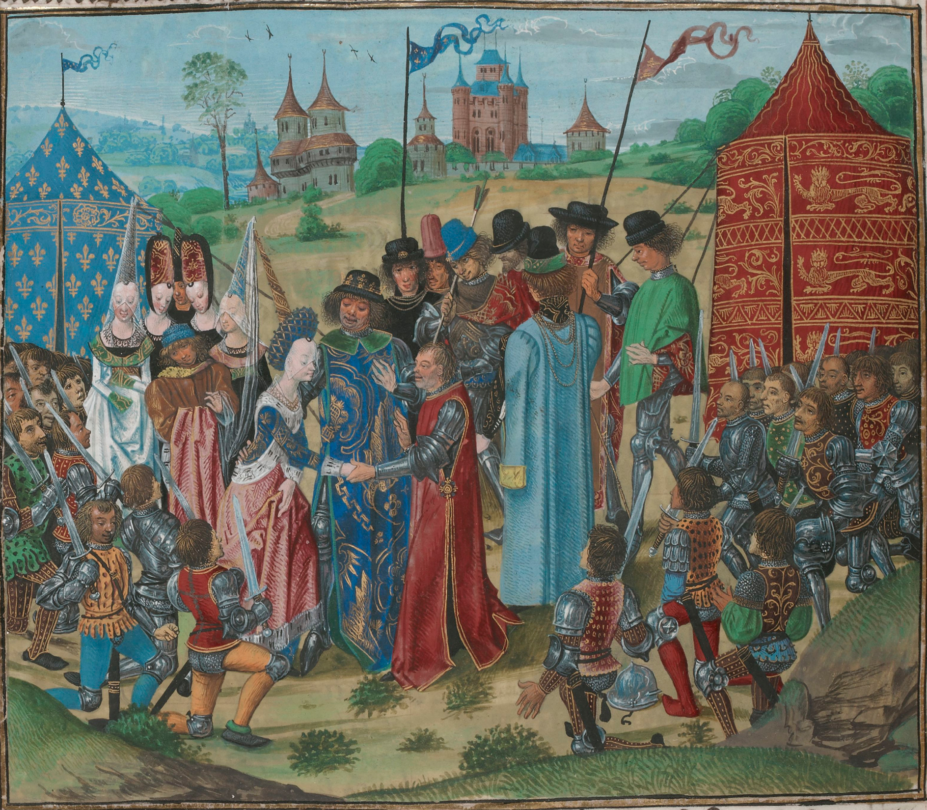 Marriage of Richard II of England